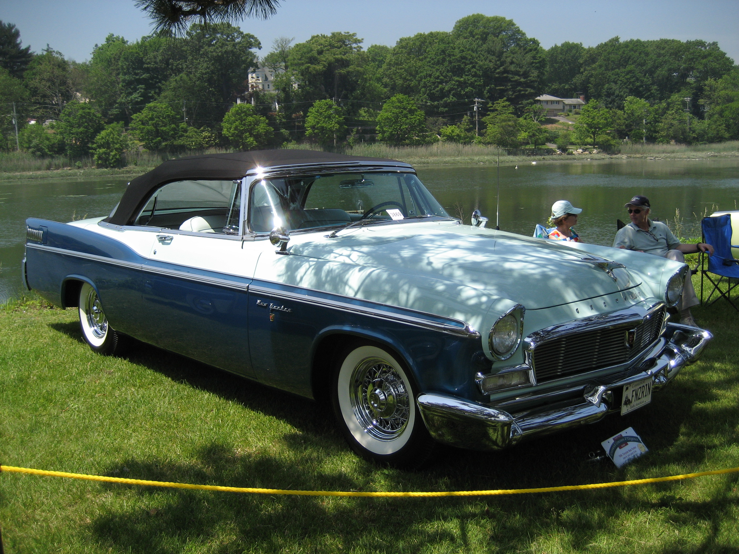 1956 Chrysler New Yorker convertible photographed at the 2008 Greenwich Concours d'Elegance in Greenwich, Connecticut.